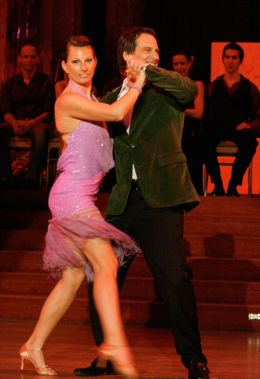 Petra Hübsch with Peter Tichatschek at the charity ball dancer against cancer (Hofburg Imperial Palace, Vienna)